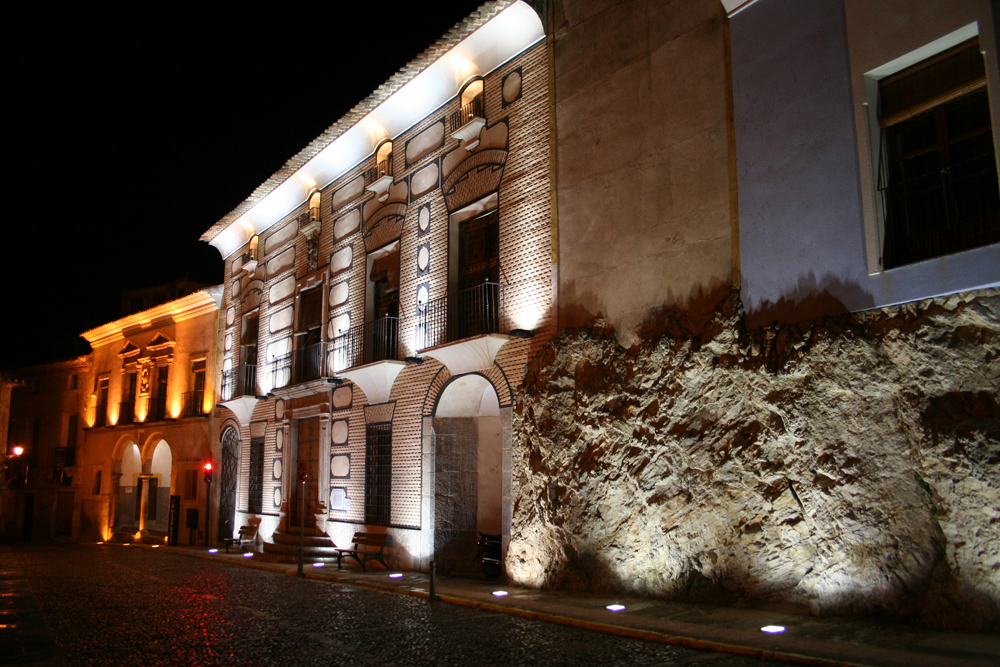 Palacio de los fajardo in Cehegín, Murcia.